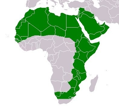 Distribution of Acacia tortilis